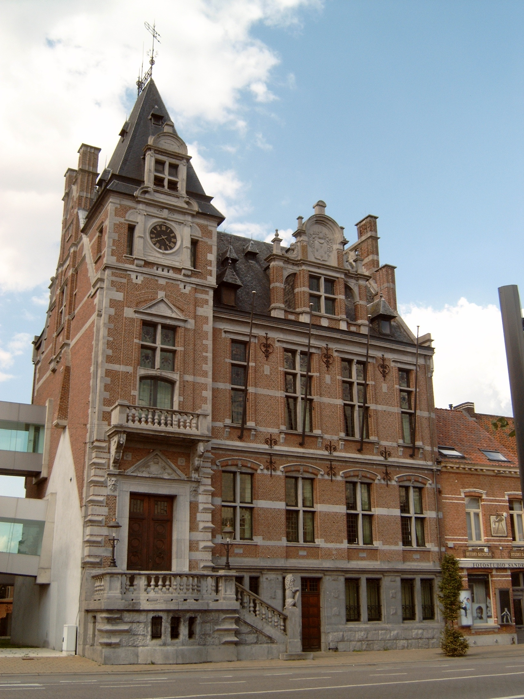 Wijnegem, Town Hall